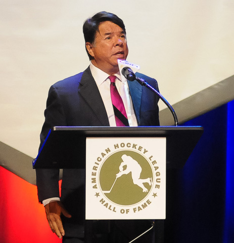 Ray Halbritter